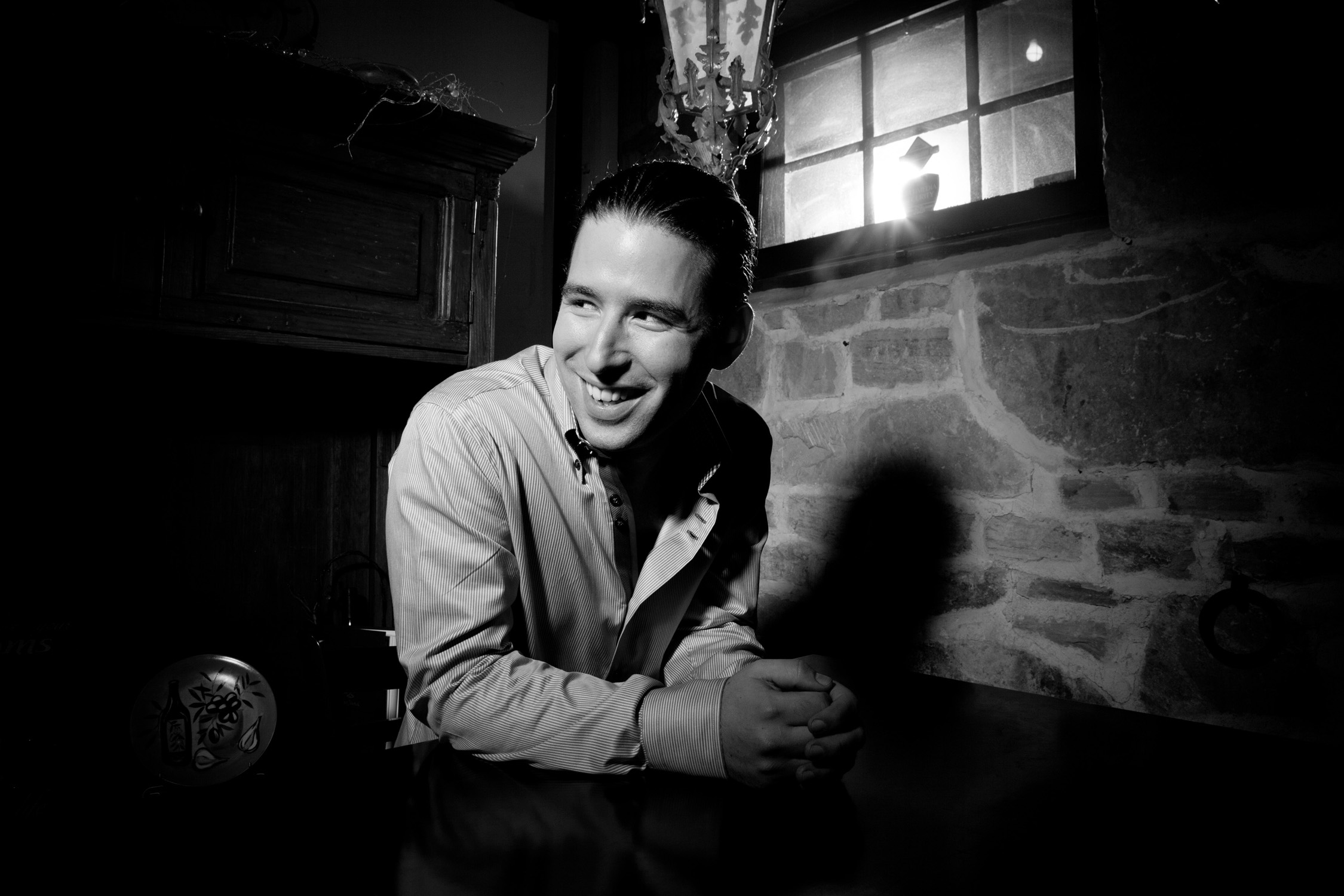 Alfredo Rodriguez